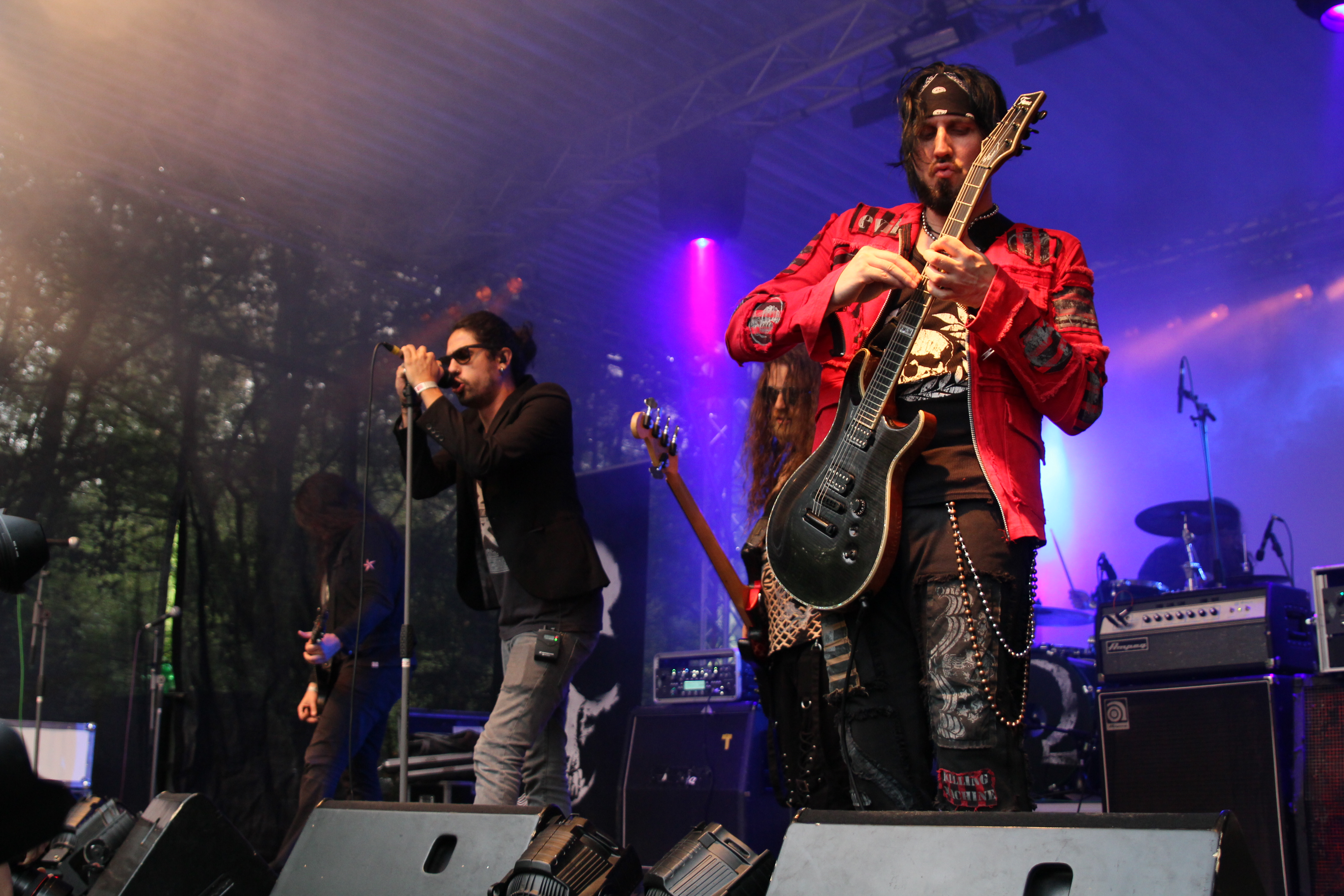 The German dark rock band Lacrimas Profundere at the Nocturnal Culture Night 9 2014 in Deutzen/Germany